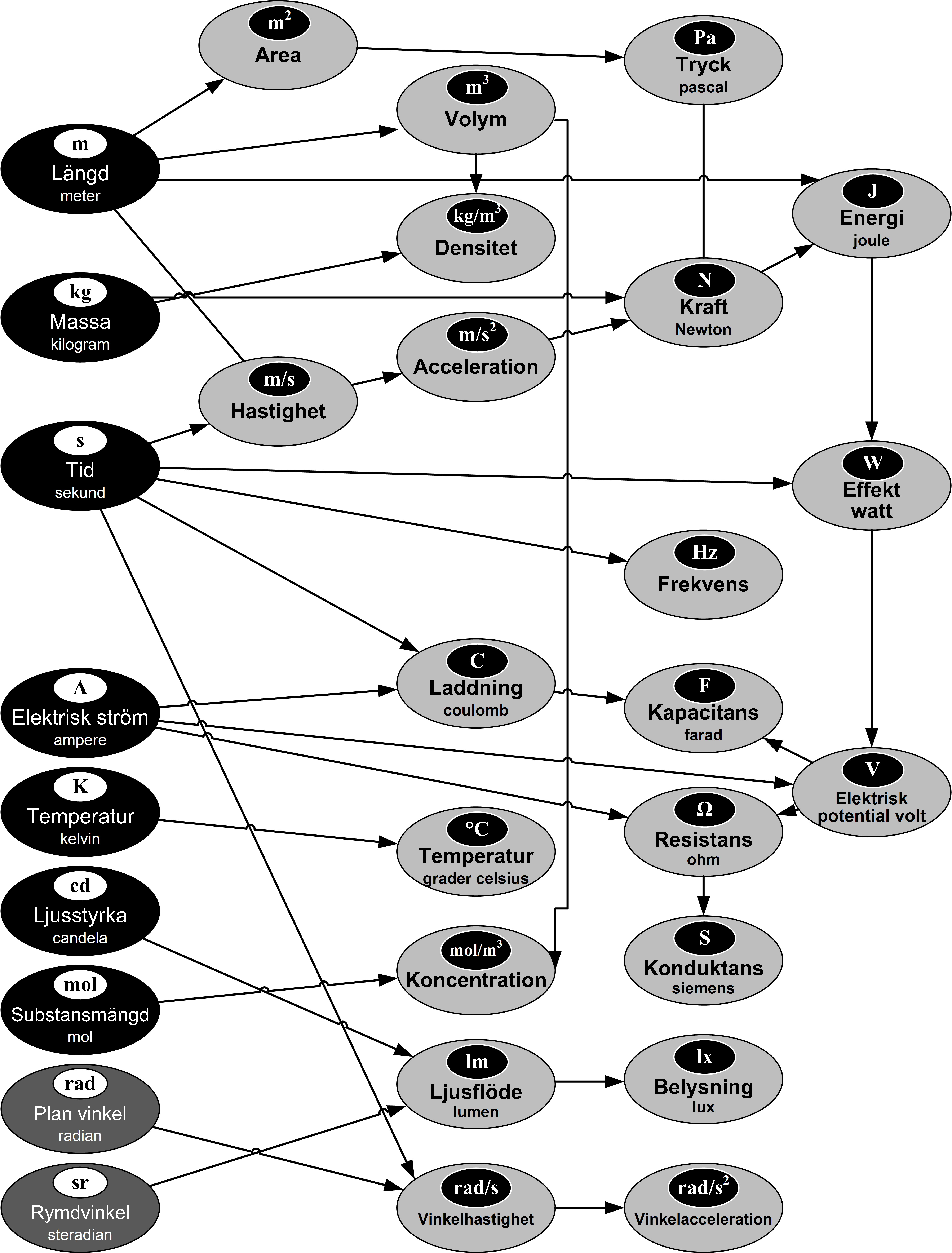 SI-base system with other derived units in Swedish.